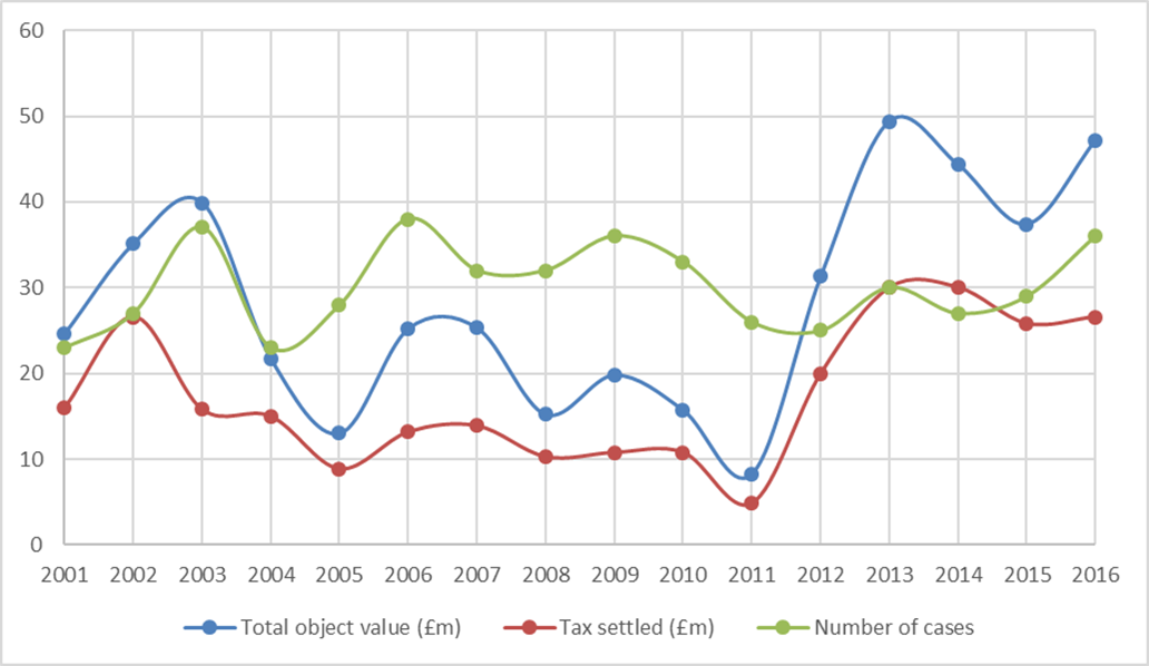 A graph of the value and number of tax settlements for the Acceptance in Lieu scheme.